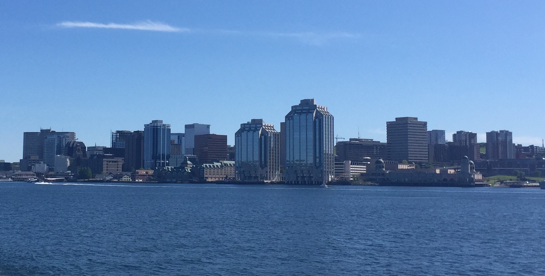 Halifax Skyline from the Dartmouth ferry